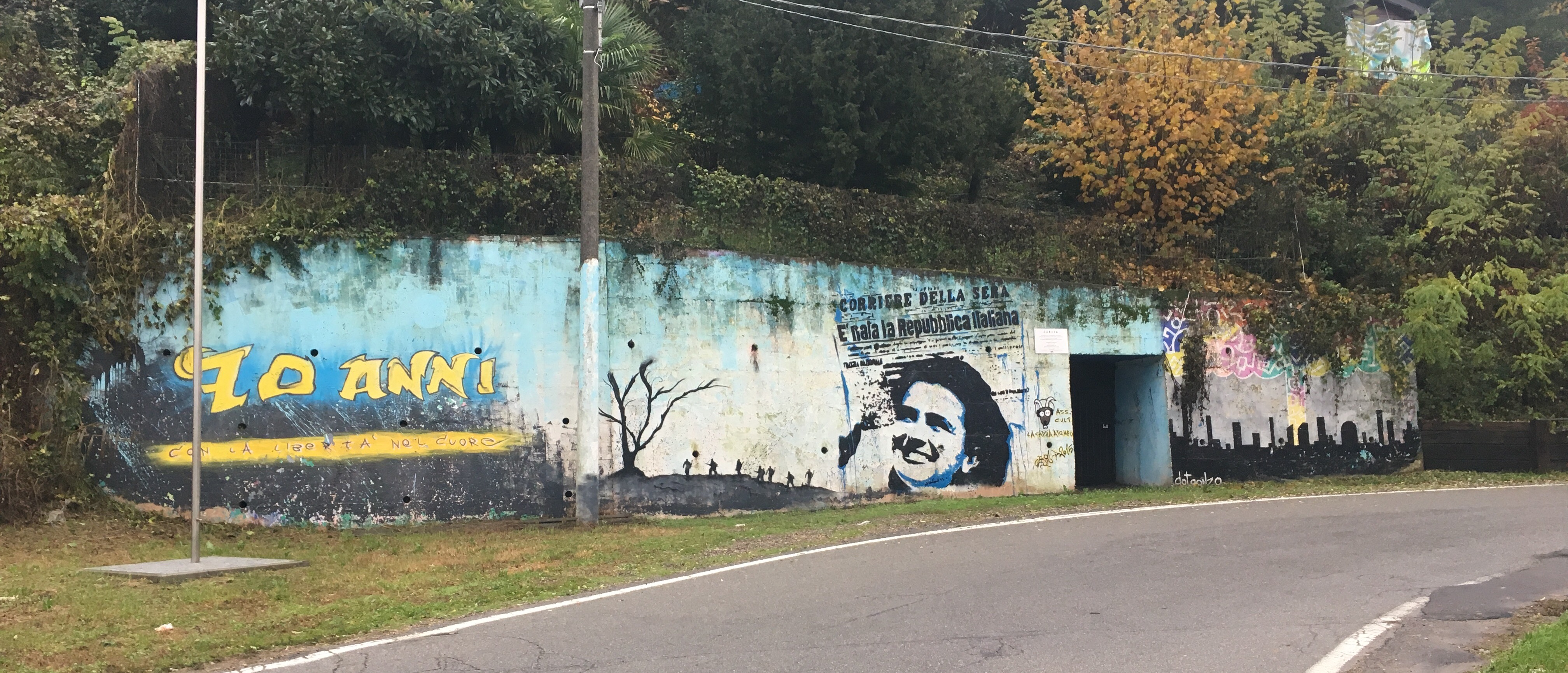 Marnate's bunker view from the street